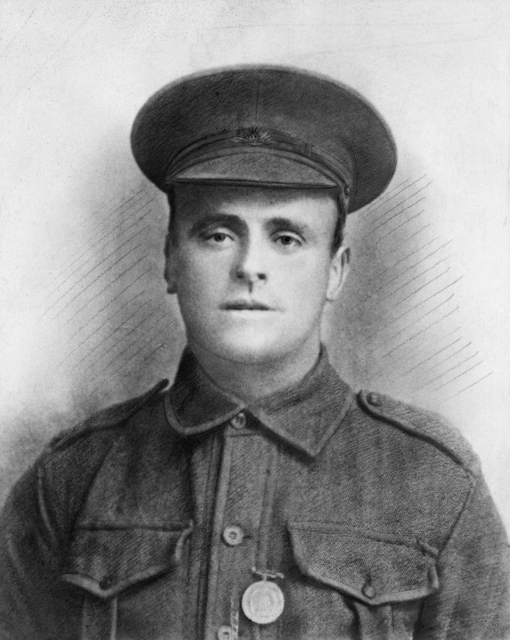 Photograph of Ernest Albert Corey